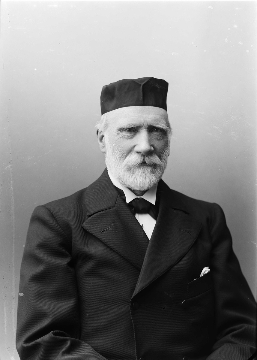 Nicolay Nicolaysen, portrett, mann, antikvar, kalott, brystbilde. DigitaltMuseum. Retrieved on 23.11 2014.